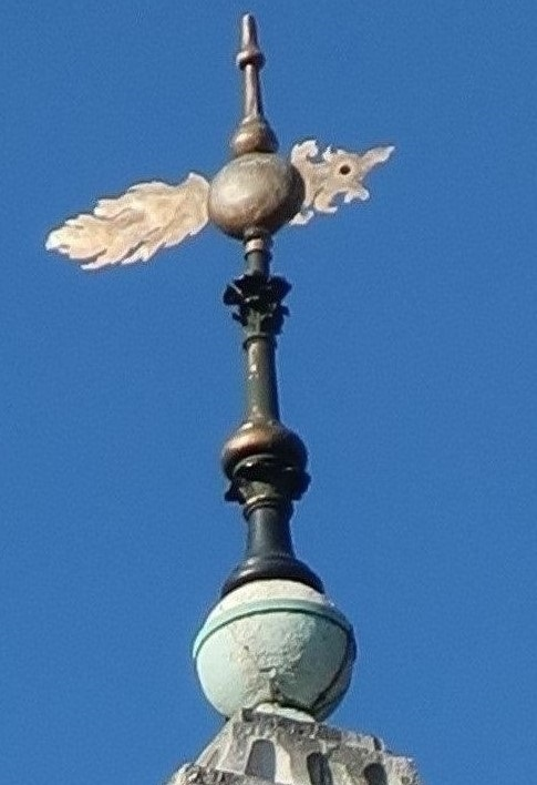 Weather vane on the church of St Luke, Old Street, London EC1. It depicts a dragon's head and a fiery comet-like tail, but was misinterpreted as a louse, and gained the church the nickname "lousy St Luke's".